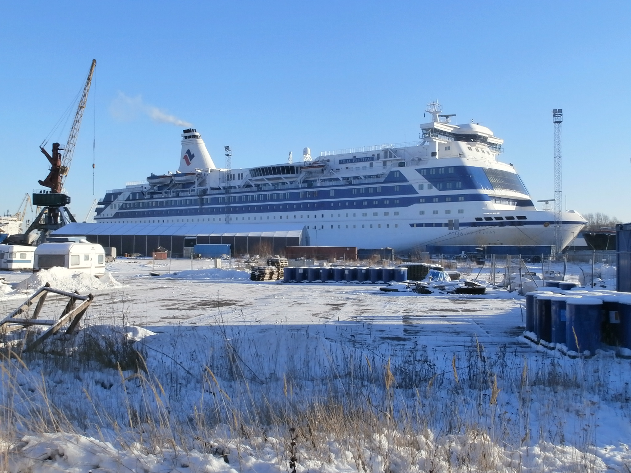 Silja Festival at Quay in Lahesuu sadam Tallinn 19 January 2014